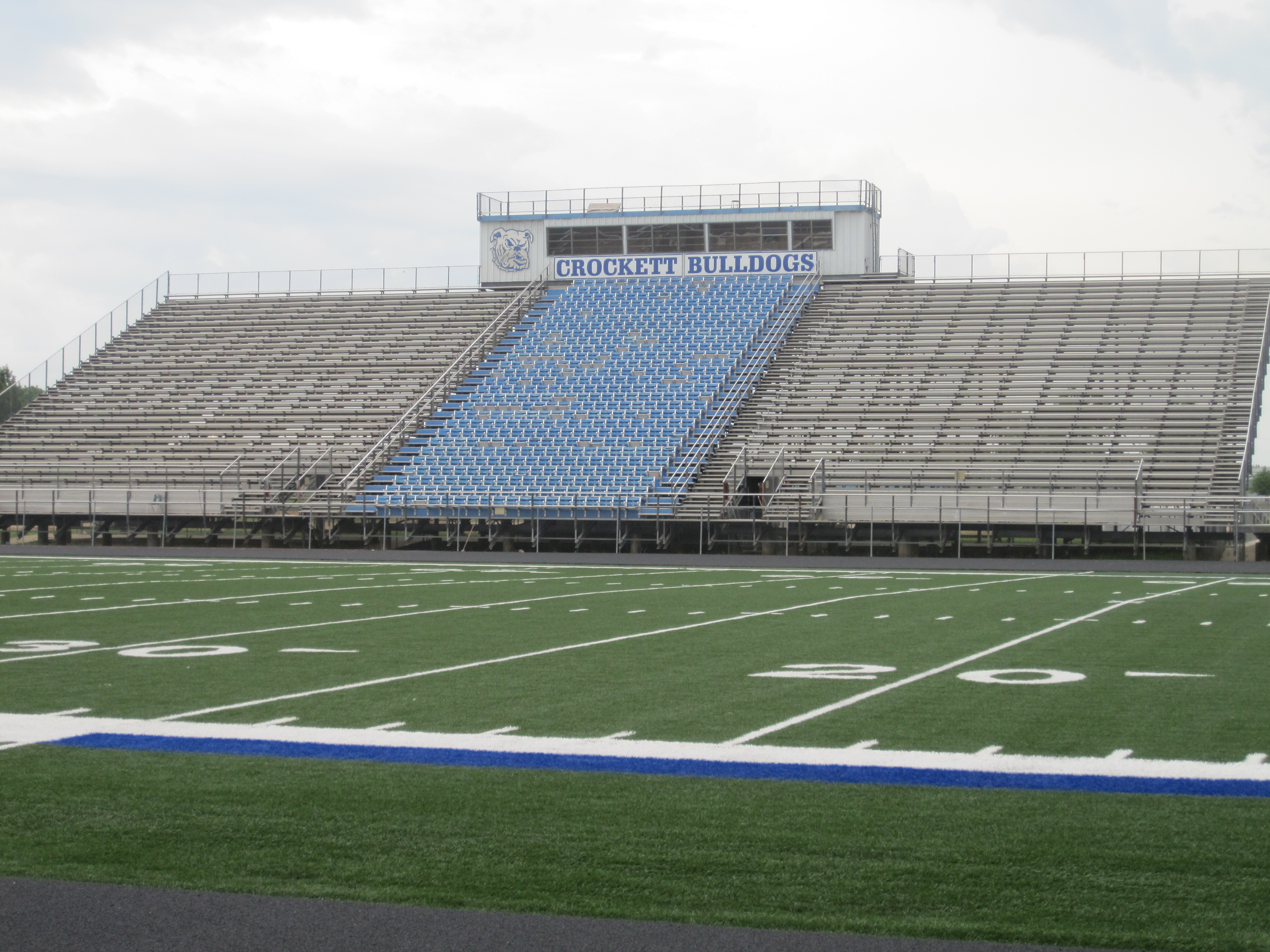 I took photo with Canon camera.